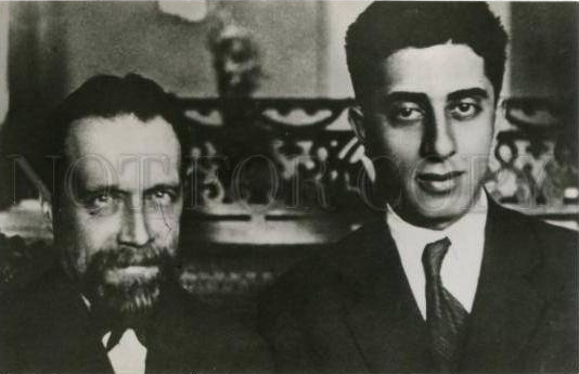 Composers Aram Khachaturian and Nikolai Myaskovsky, 1930s